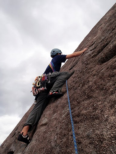 Slab climbing Sundial Crack at Looking Glass, NC